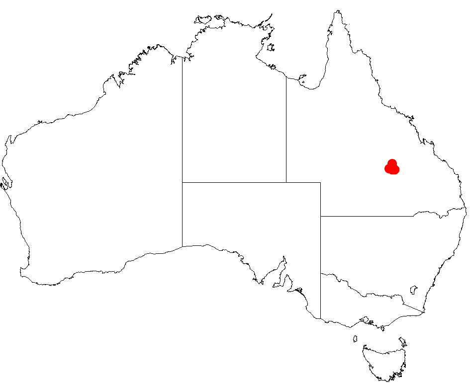 Homoranthus zeteticorum Occurrence data from AVH downloaded 28 September 2018